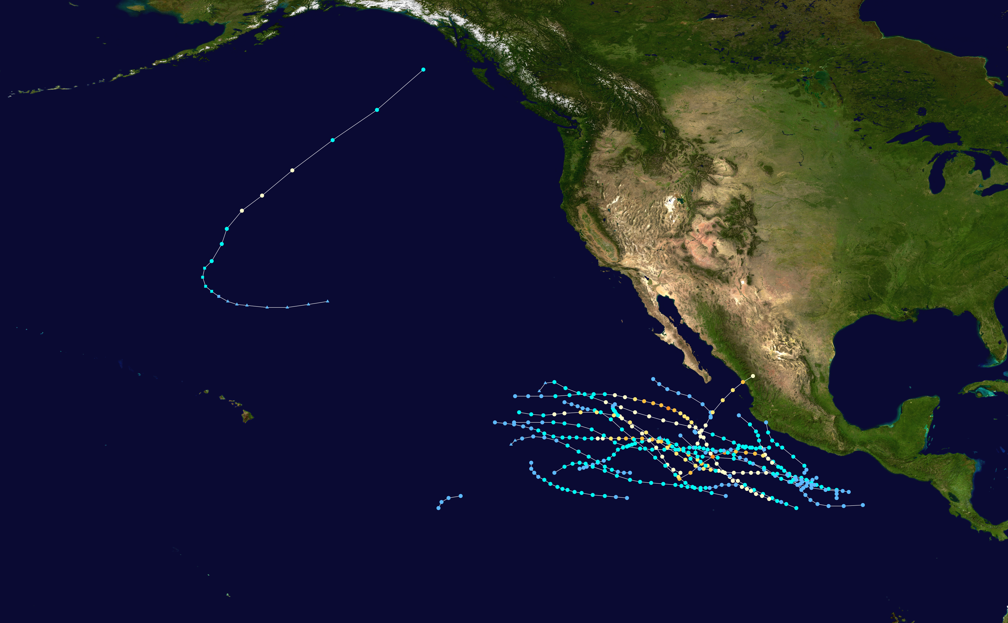 This map shows the tracks of all tropical cyclones in the 1975 Pacific hurricane season. The points show the location of each storm at 6-hour intervals. The colour represents the storm's maximum sustained wind speeds as classified in the Saffir-Simpson Hurricane Scale (see below), and the shape of the data points represent the type of the storm. Saffir–Simpson hurricane wind scale Tropical depression≤38 mph≤62 km/h Category 3111–129 mph178–208 km/h Tropical storm39–73 mph63–118 km/h Category 4130–156 mph209–251 km/h Category 174–95 mph119–153 km/h Category 5≥157 mph≥252 km/h Category 296–110 mph154–177 km/h Unknown Storm typeTropical cycloneSubtropical cycloneExtratropical cyclone / Remnant low / Tropical disturbance